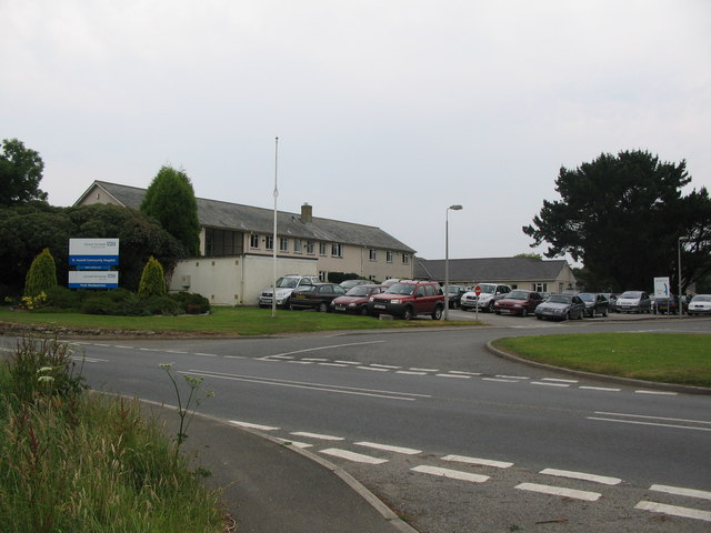 St. Austell Community Hospital. A view looking west across the road to Porthpean, towards the entrance to St. Austell Community Hospital.